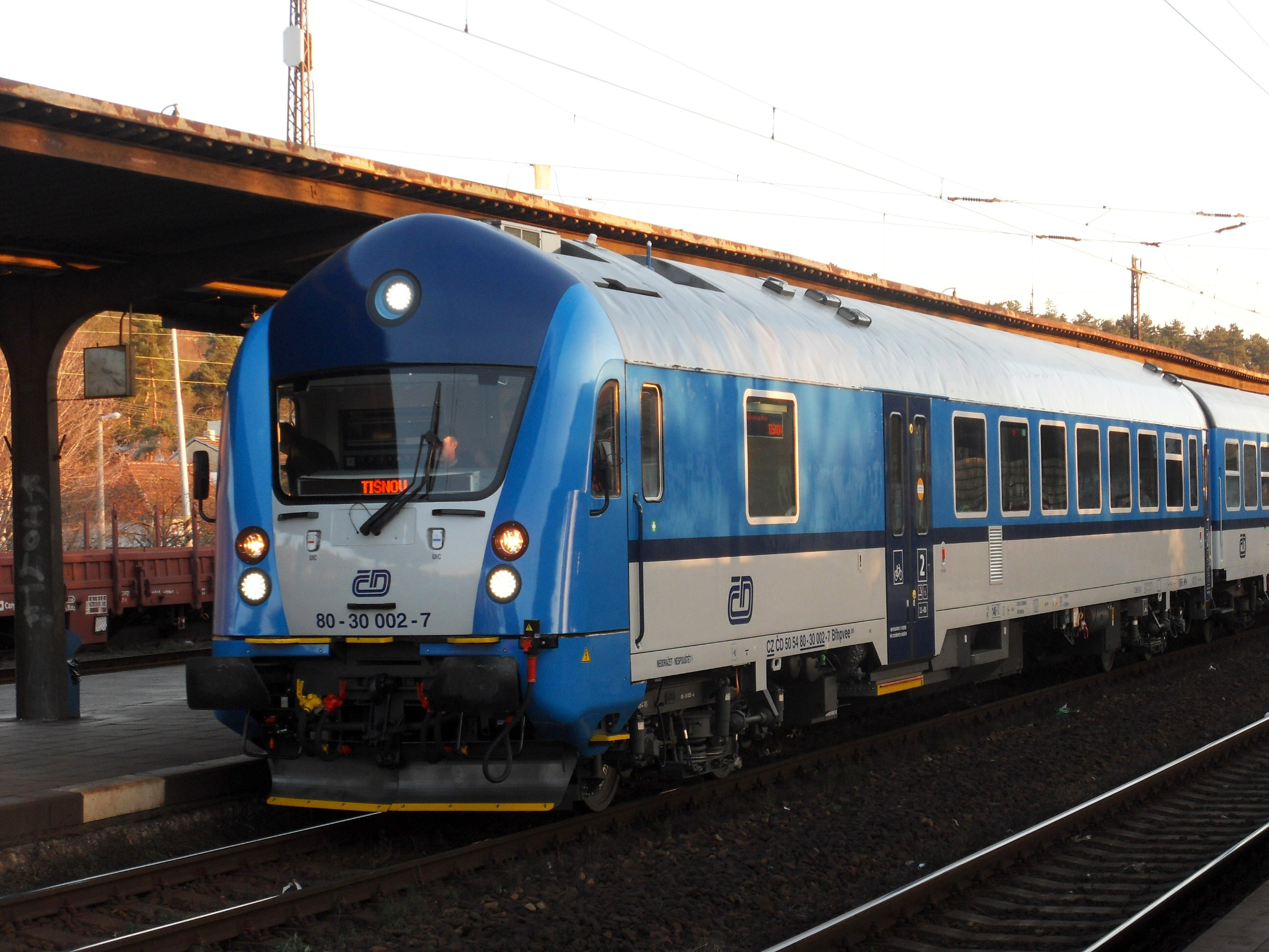 80-30 002 Bfhpvee295 control car of České dráhy, railway station Brno-Královo Pole, Brno, Czech Republic